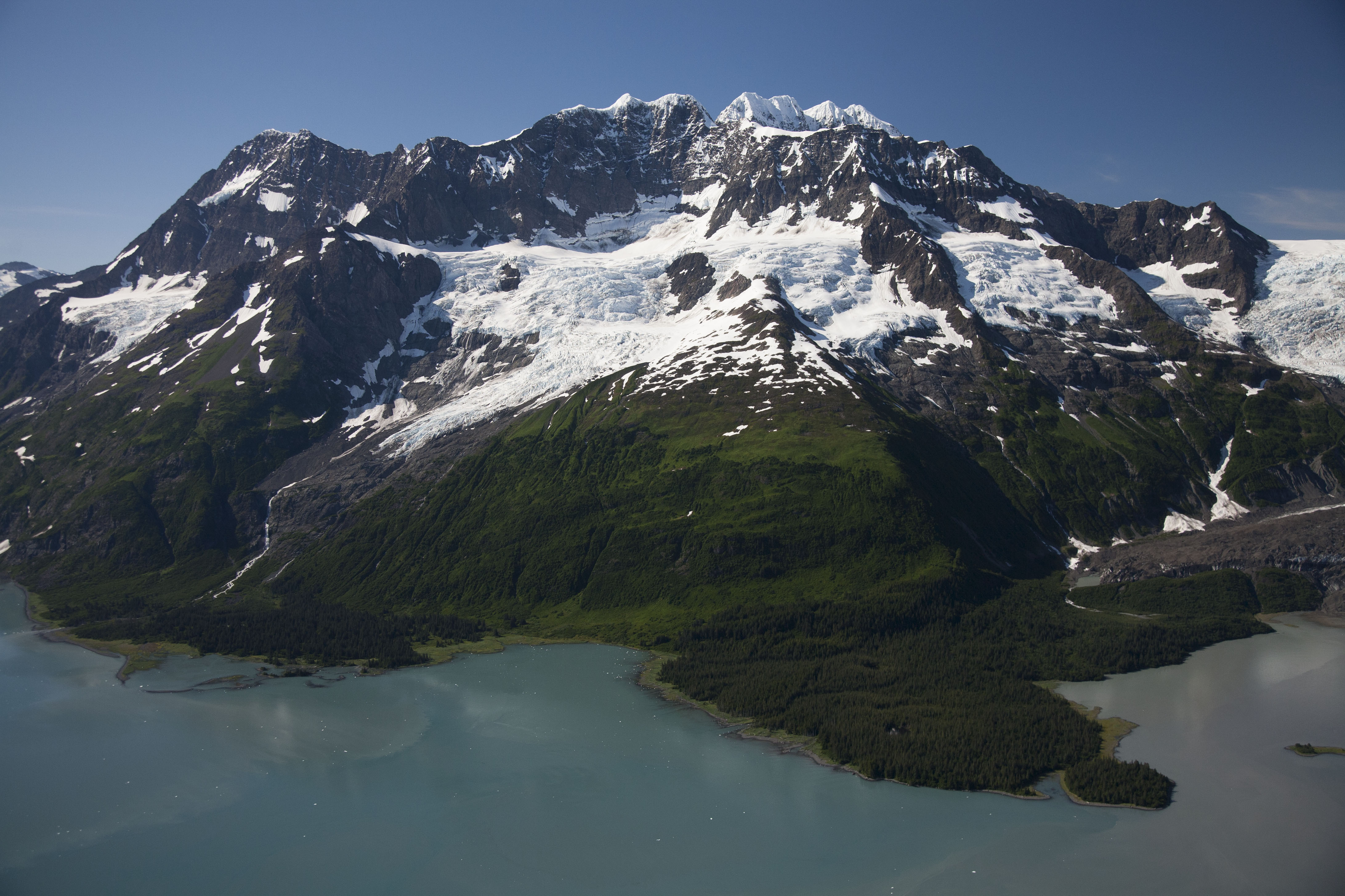 Aerial view of Mt. Muir with Baker Glacier, Harriman Fiord, Prince William Sound, Chugach National Forest, Alaska.